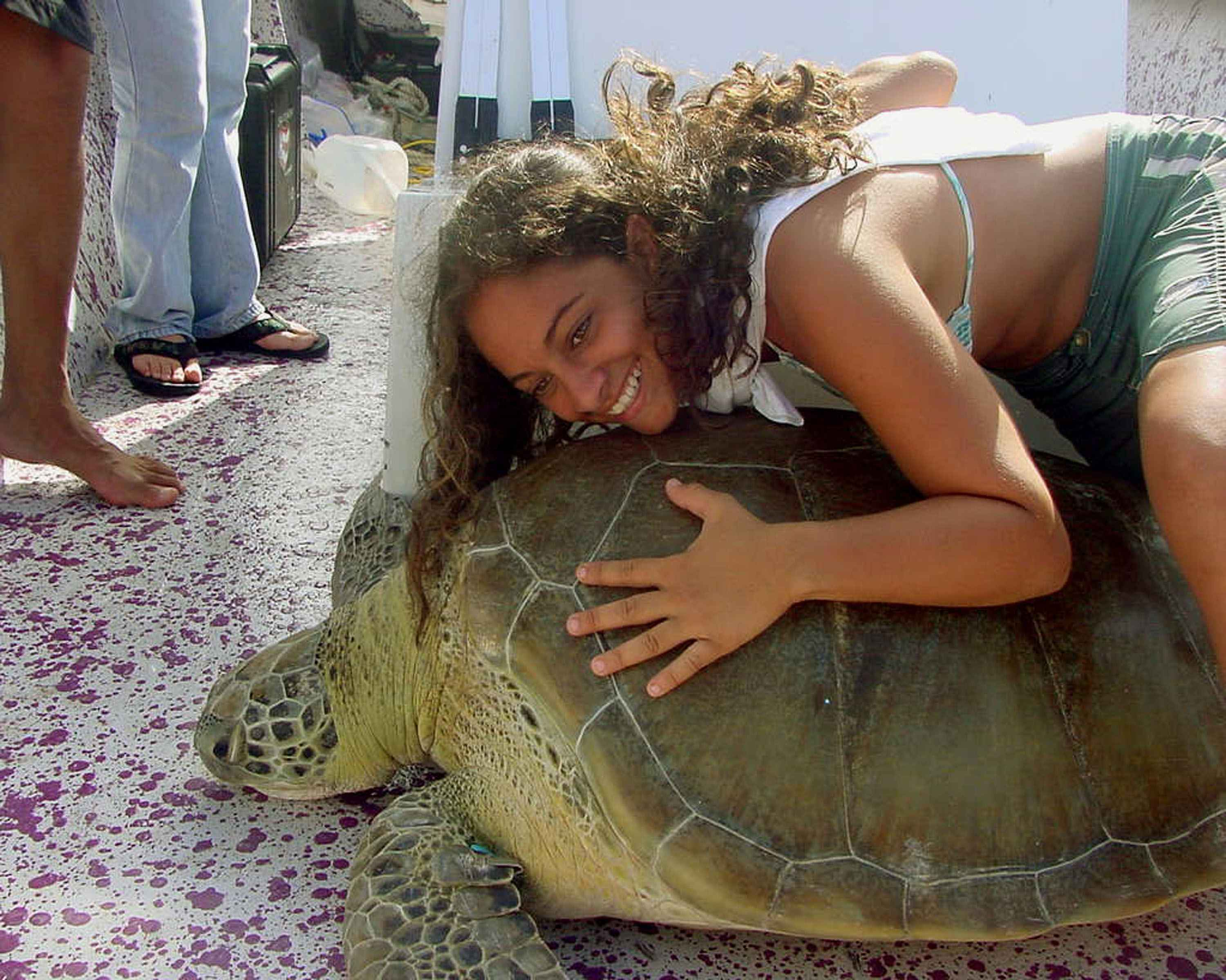 Image title: Girl on the back of a green sea turtle Image from Public domain images website